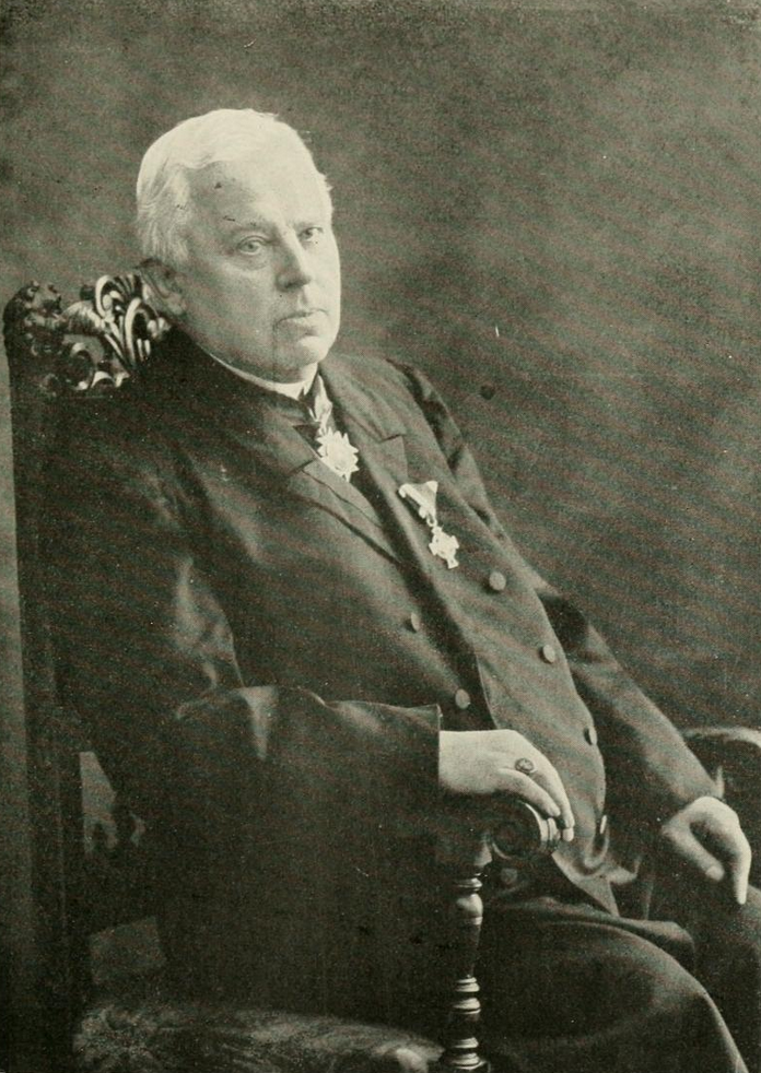 Hornjoserbsce: Jakub Herman (1836–1916); farar, mecen a spěchowar serbskeje literatury.